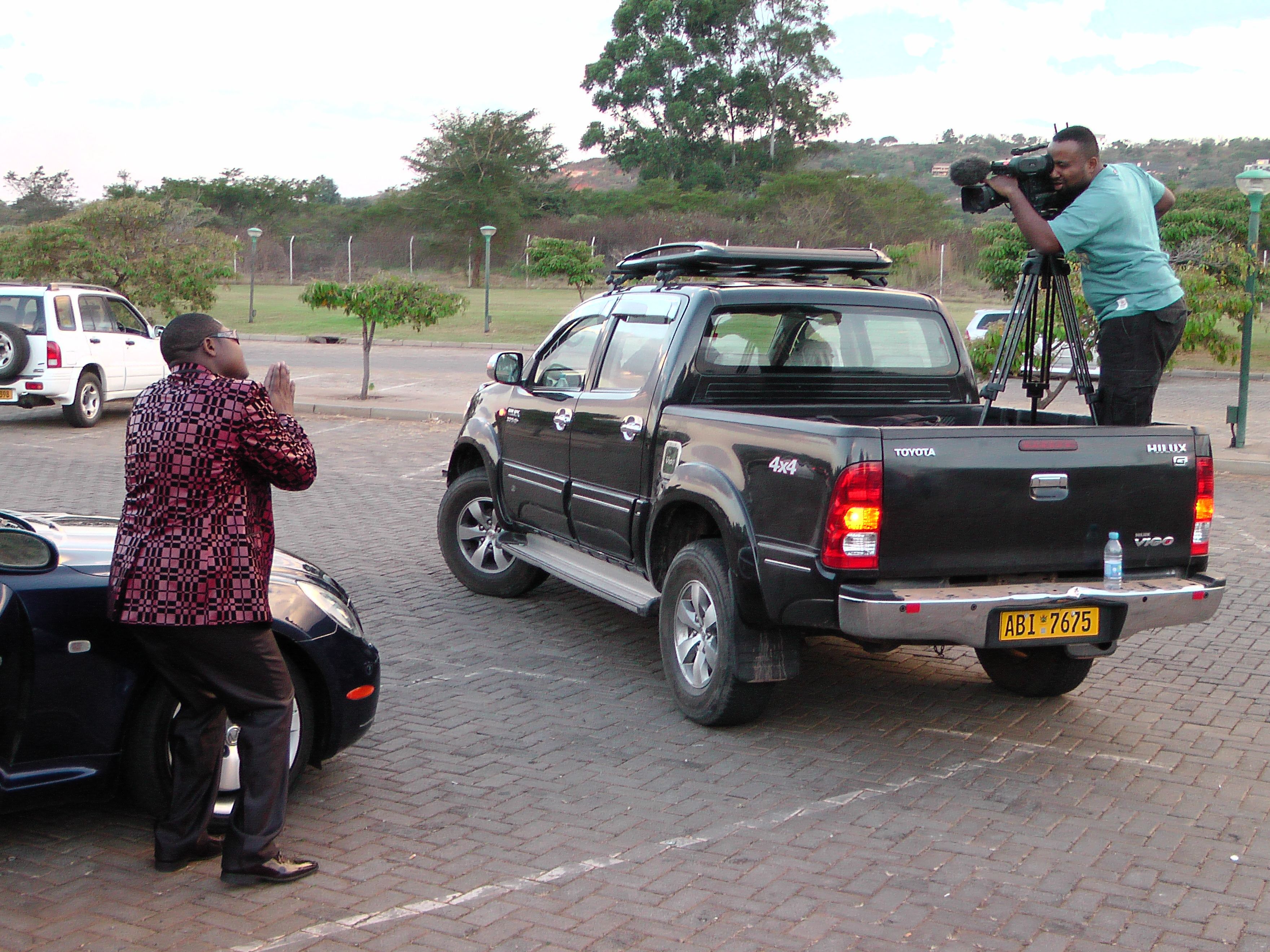 In Zimbabwe with Energy Mutodi